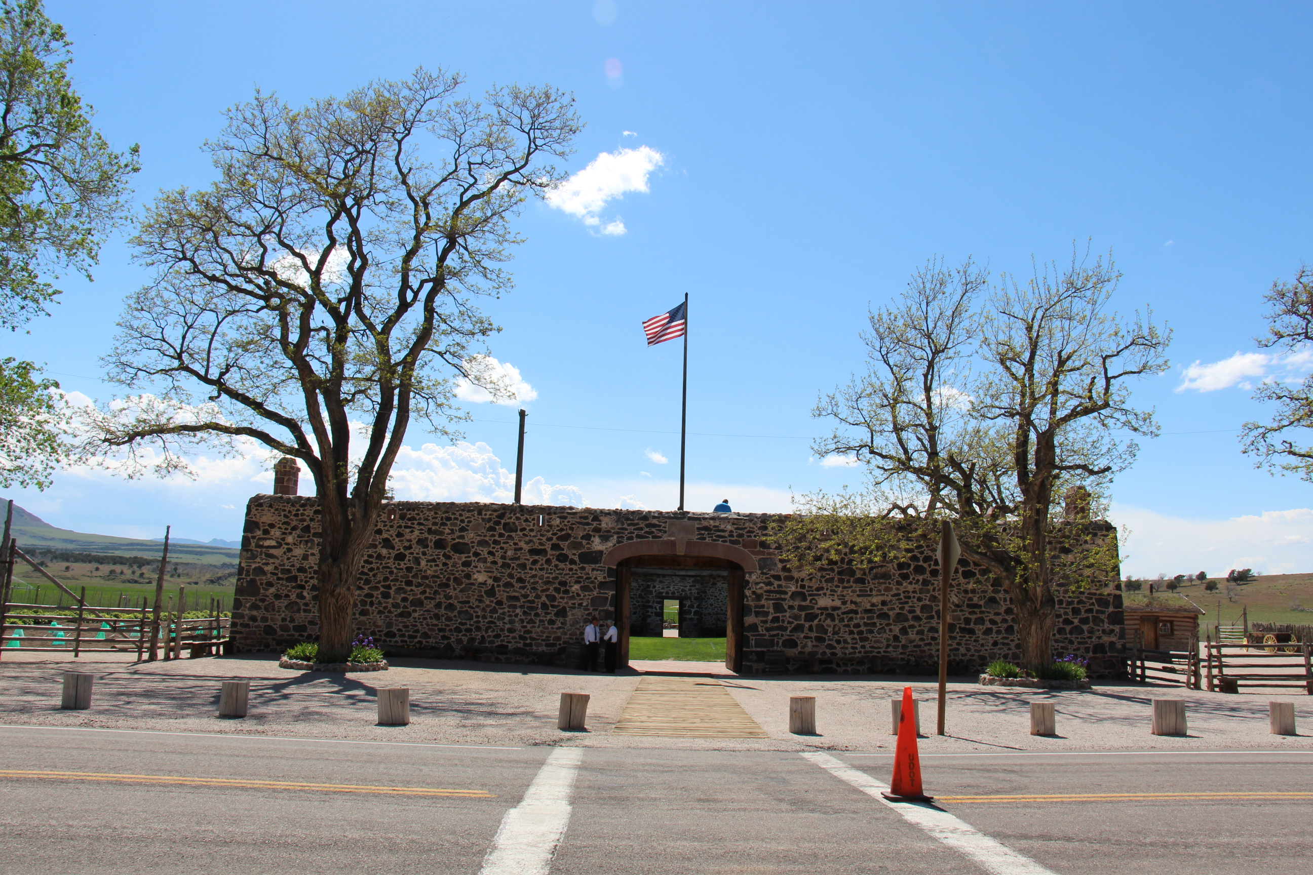 Cove Fort Historic Site in Kanosh, Utah; front exterior on Highway 161